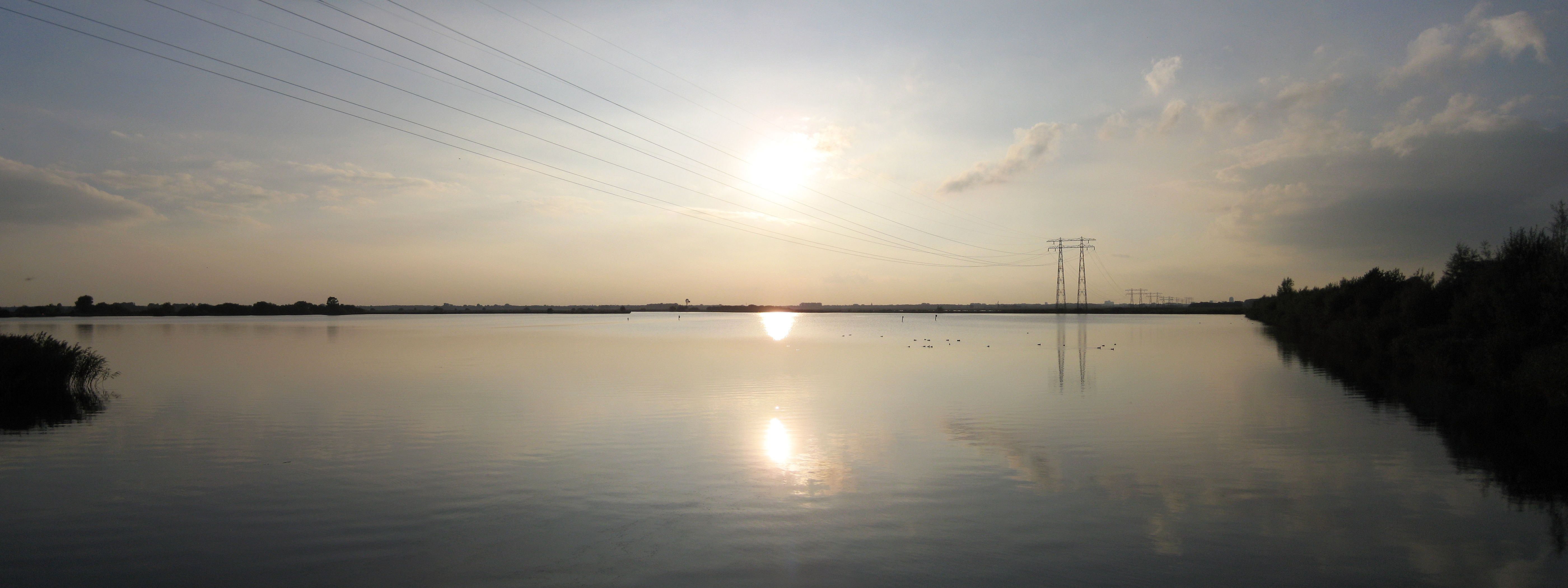 The Foxholstermeer, a lake in the Dutch province of Groningen.